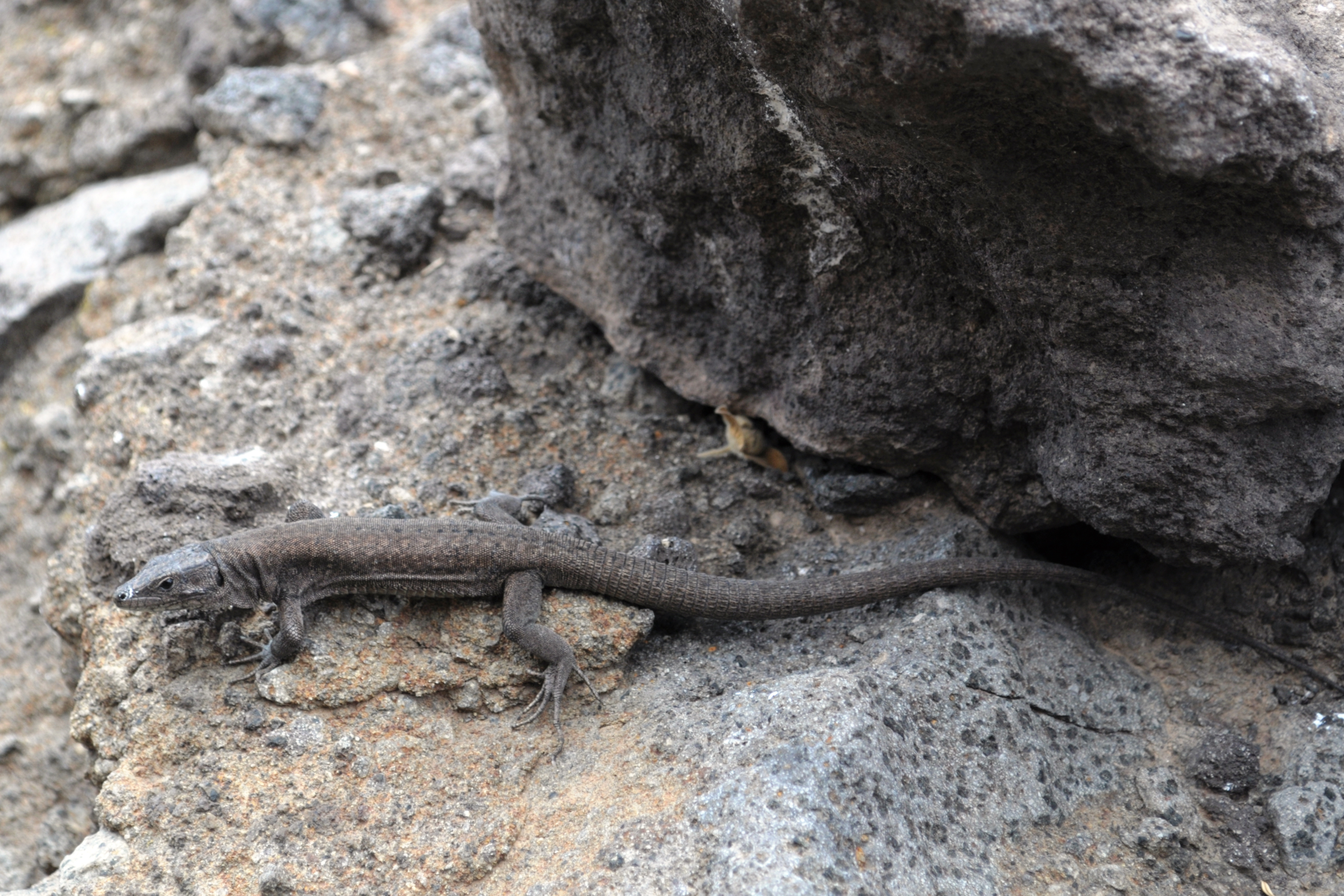 Podarcis raffonei cucchiarai shooted at La Canna, Filicudi (Eolian Islands)